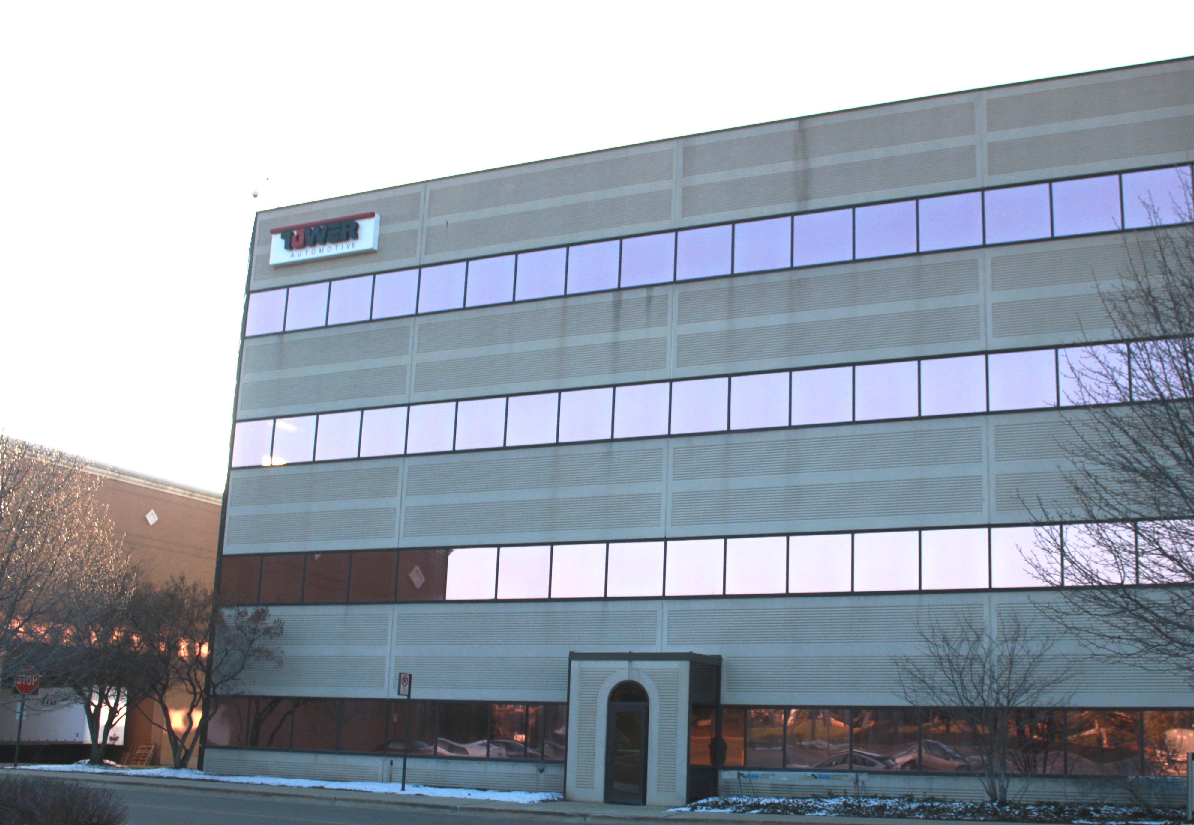 Tower Automotive Headquarters Building, 17672 North Laurel Park Drive, #400, Livonia, Michigan.